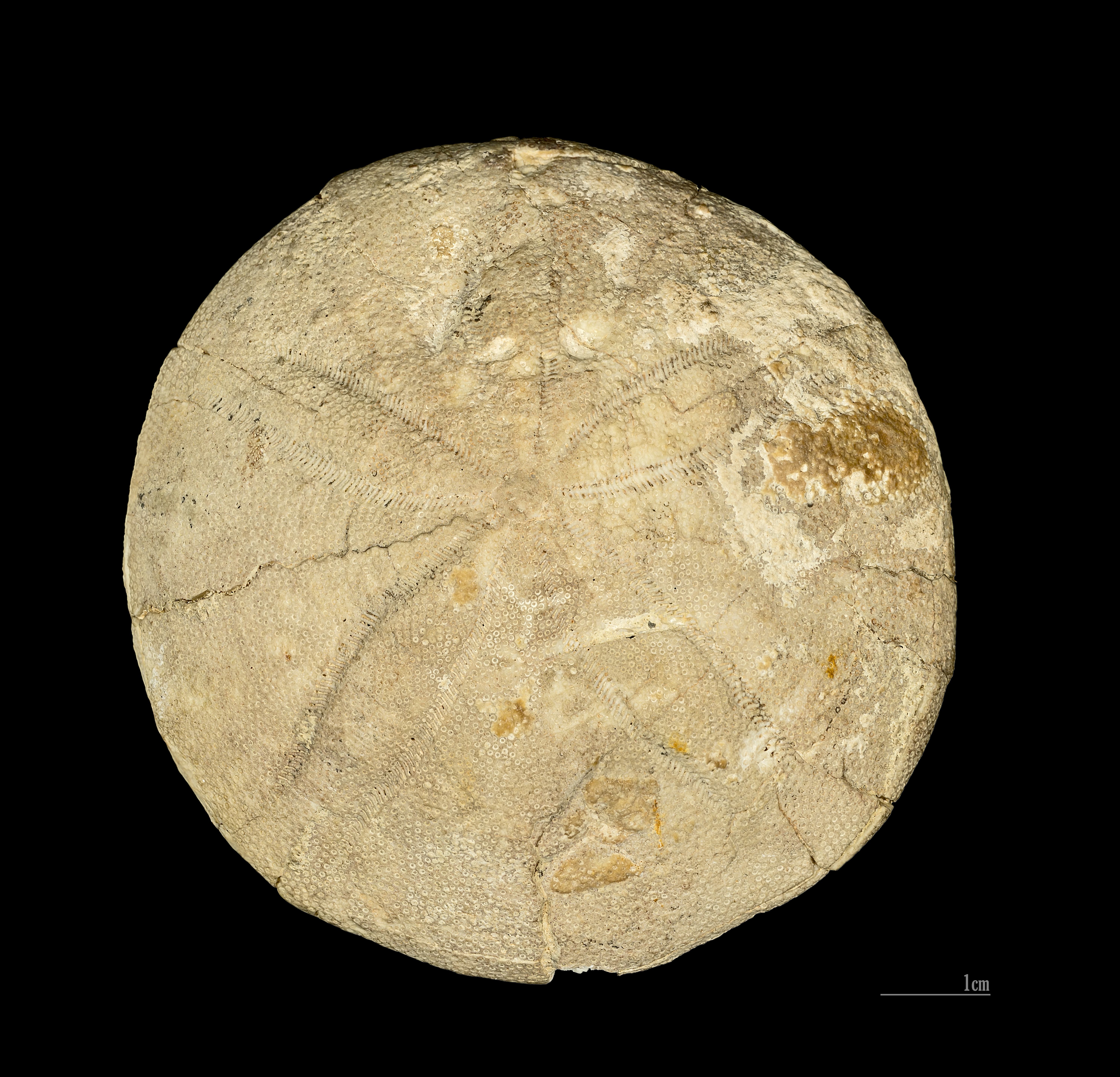 Echinolampas hemisphaerica. Dorsal side. Stage : Burdigalian between 20.43 ± 0.05 Ma and 15.97 ± 0.05 Ma (million years ago).